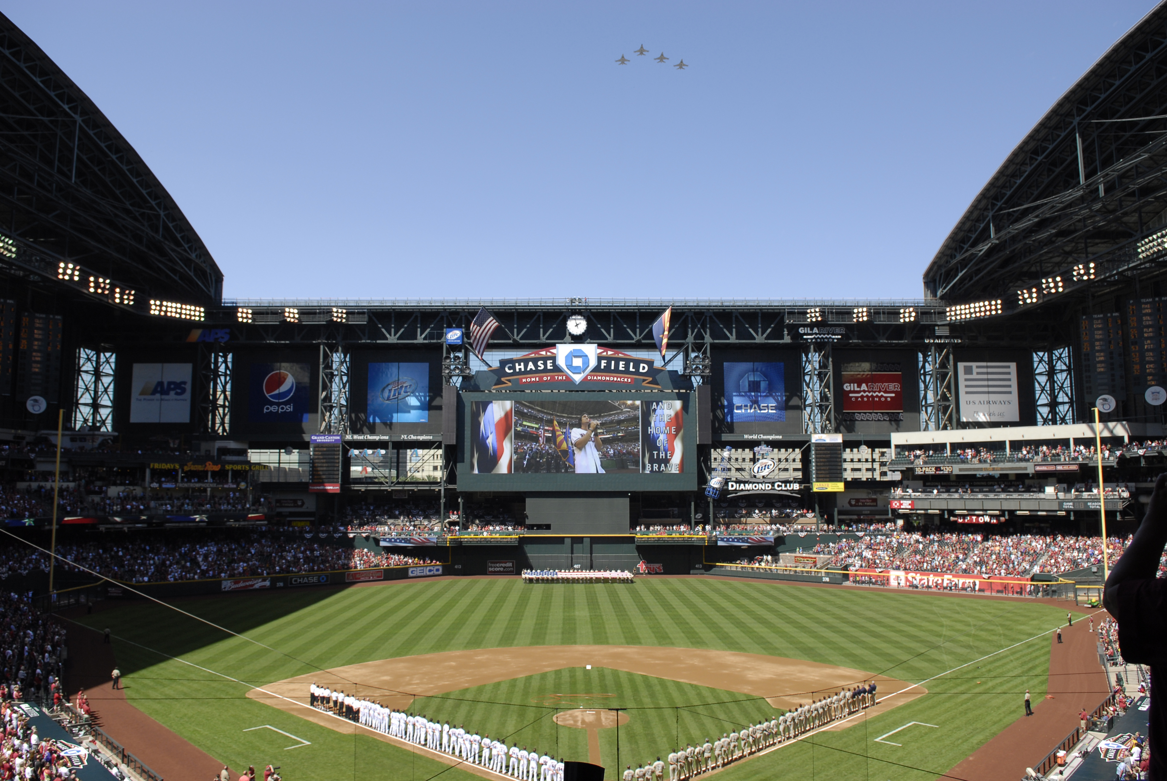 Members of the U.S. Air Force's 61st Fighter Squadron out of Luke Air Force Base (AFB), Ariz., perform a flyover before the Arizona Diamondbacks baseball team season opener April 5, 2010, at Chase Field in Phoenix.